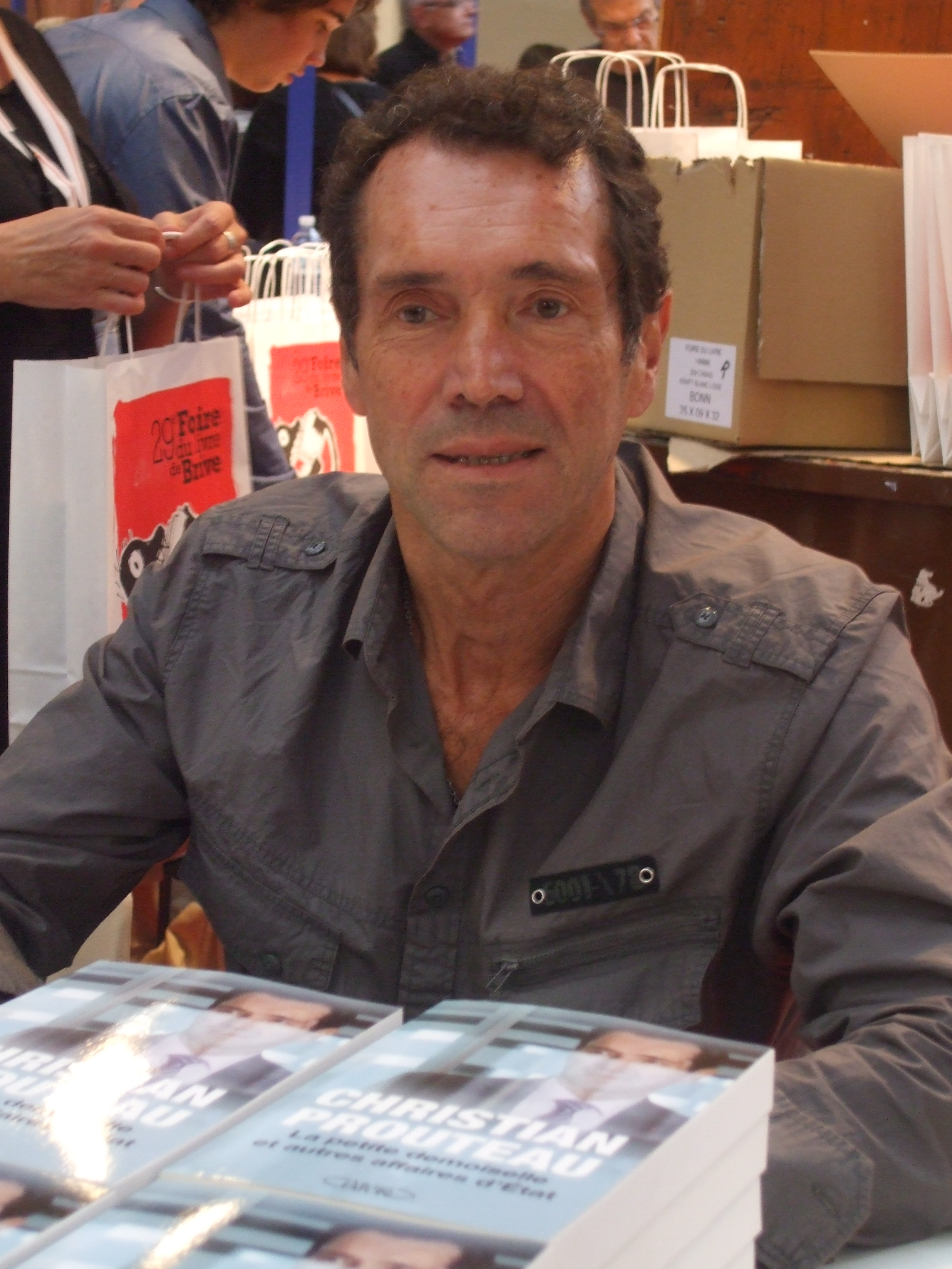 Christian Prouteau, former prefect, Brive la Gaillarde book fair, France, 2010 11 05